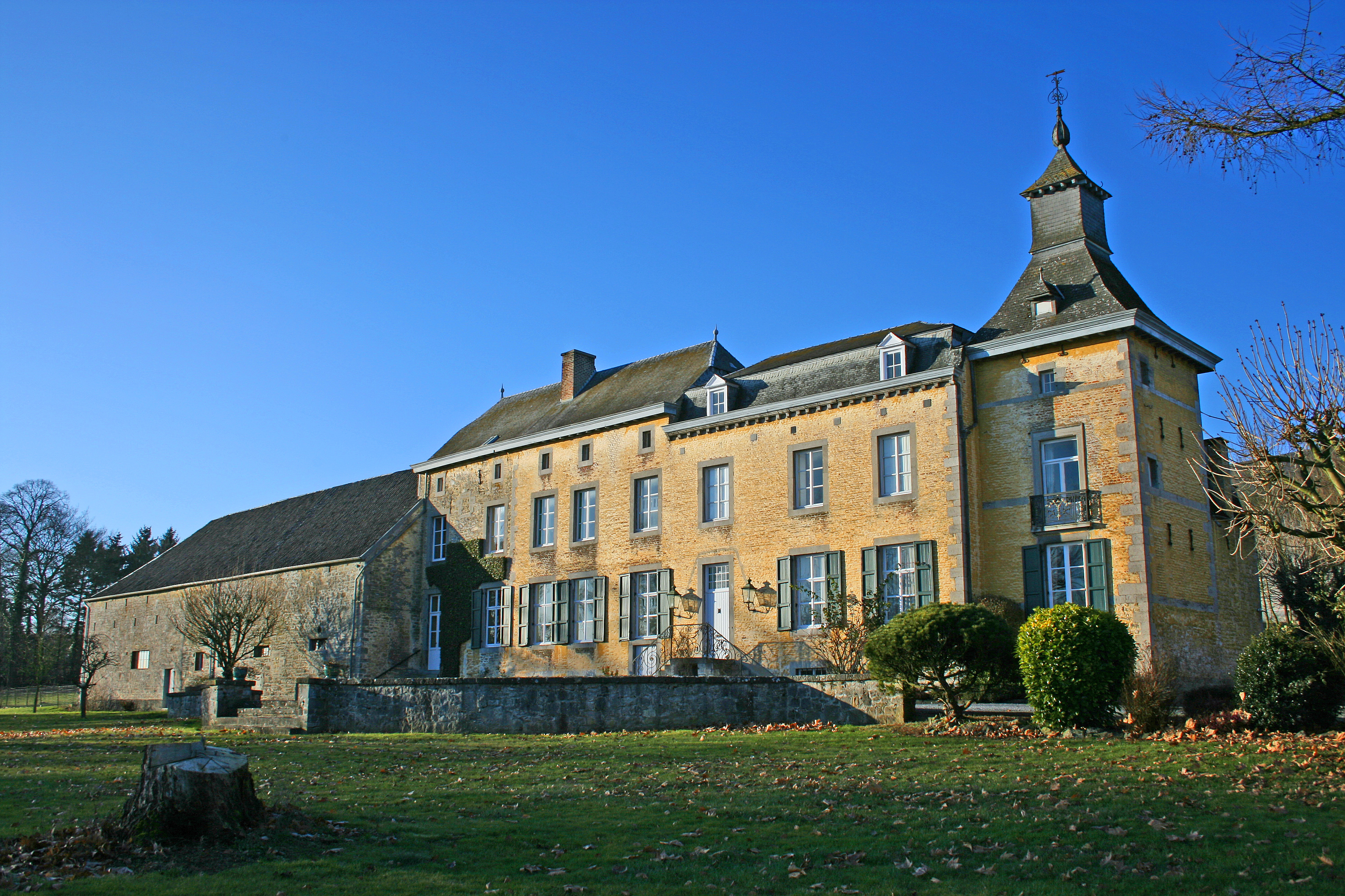 Chateau in Ouffet